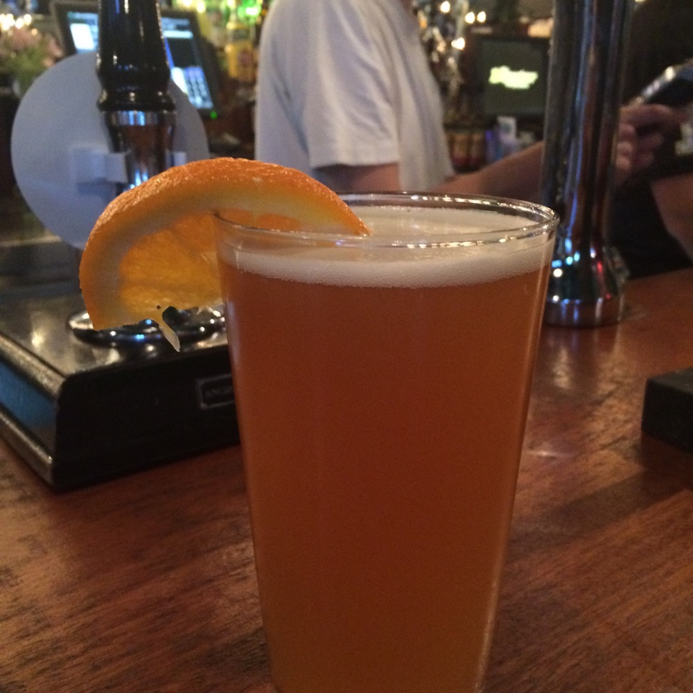 Blue moon beer sold with its orange slice gimmick. London 2015